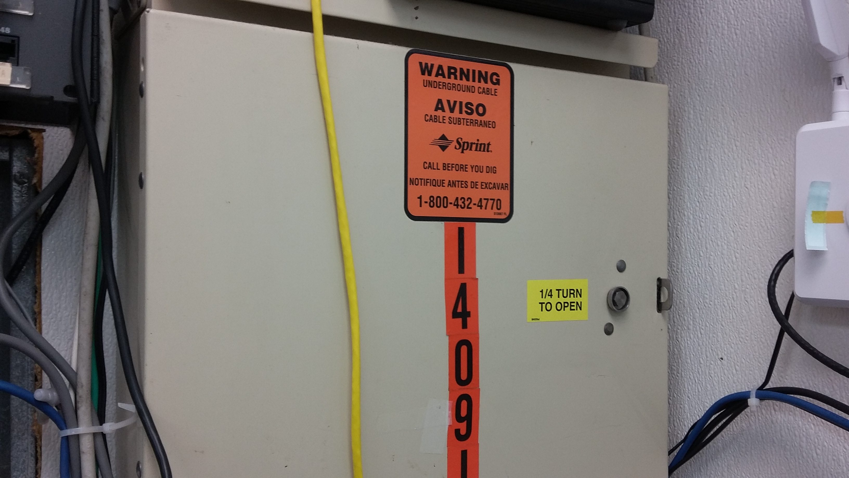 An old Sprint network interface device inside of a Port Charlotte, Florida business. Sprint spun off it's local telephone division into a company called Embarq, which later became part of CenturyLink.